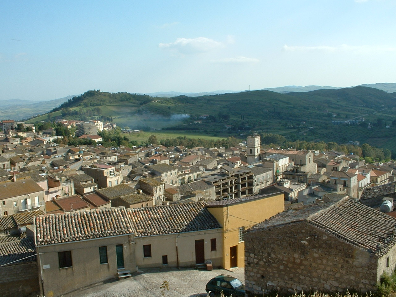 View of Alimena (PA) from Quisisana hill.